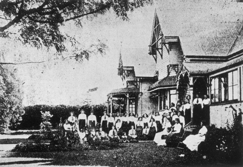 Pupils and staff of Spreydon Girls' College, ca. 1914. Fairholme College originated from Spreydon College, a school which was situated on the corner of Warra and Rome Streets in the Newtown area of Toowoomba.